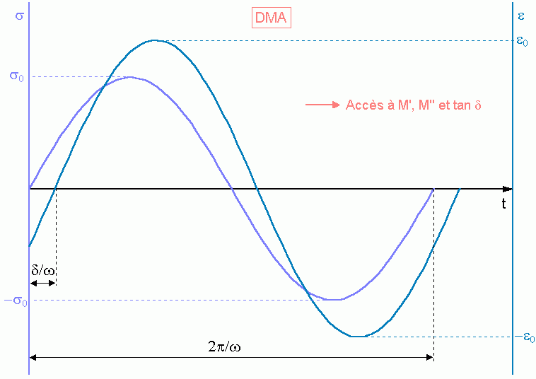 Sinusoidal stress and corresponding out of phase strain, in DMA. DMA measures mechanical (viscoelastic) properties.